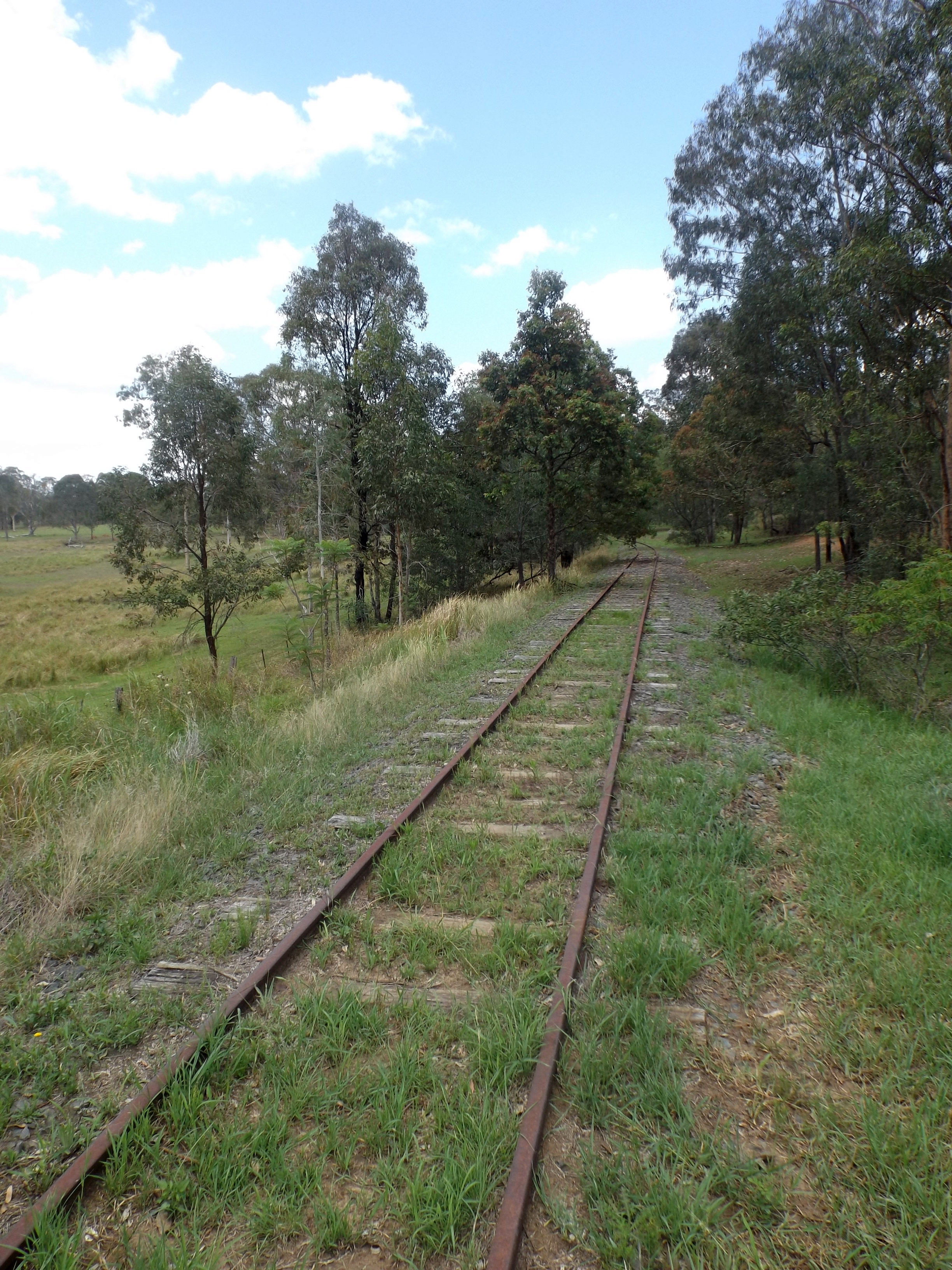 Photo of disused Beaudesert railway line at Cedar Grove, Logan City, Queensland, Australia.